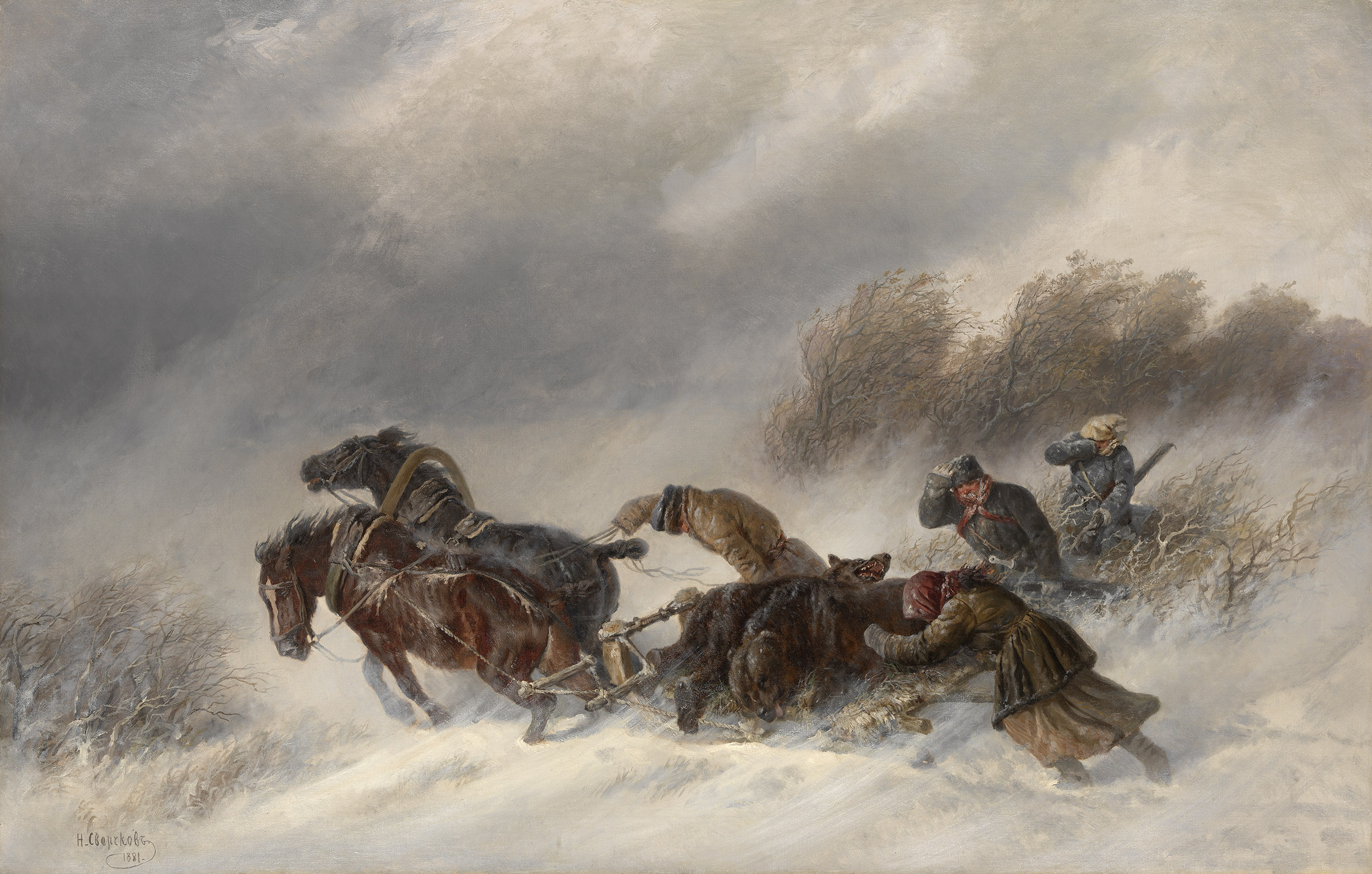 Painting by Nikolai Sverchkov